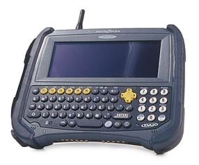 A portable data terminal (Photo by DAP Technologies)